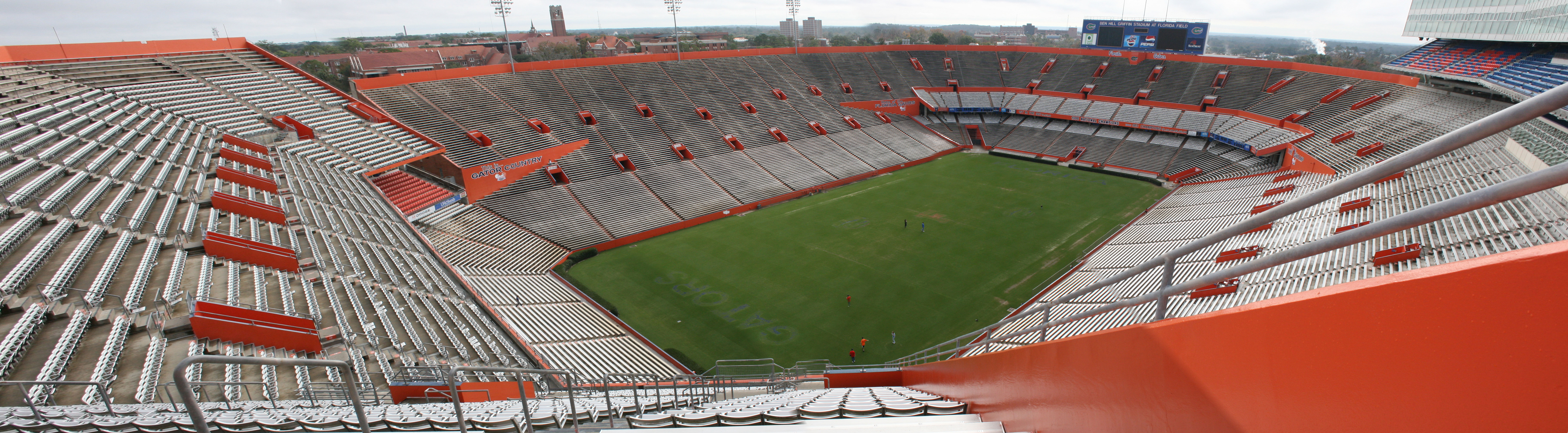 The Swamp. Taken outside of football season, as the field is not painted.